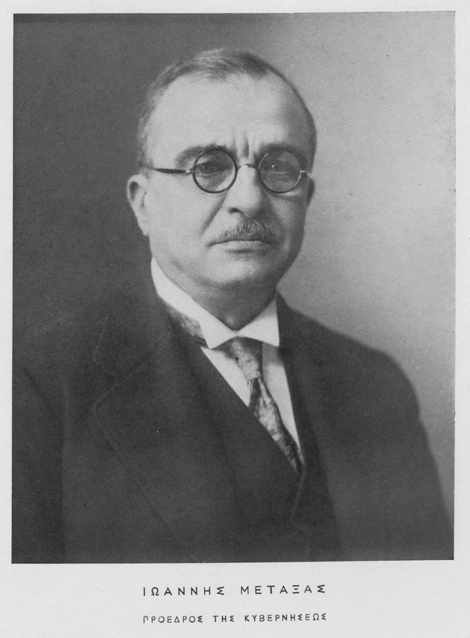 Ioannis Metaxas, prime minister and dictator of Greece 1936-1941